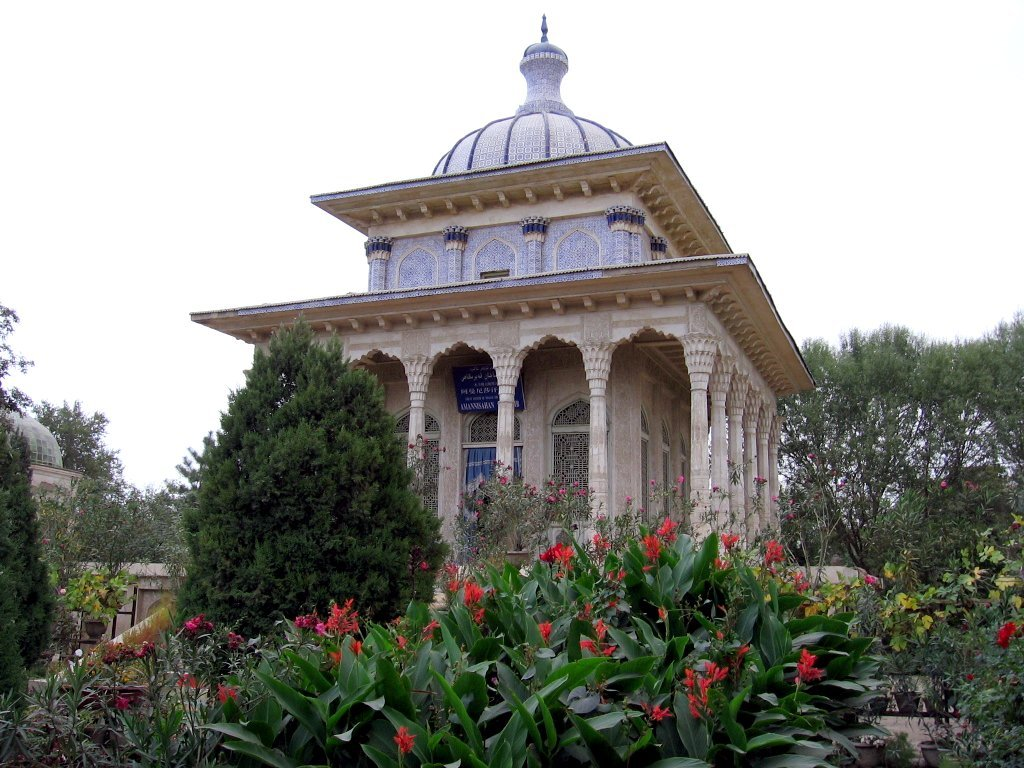 Yarkand (Sache) is an oasis city in the Xinjiang Uygur Autonomous Region of the People's Republic of China. Mausoleum of Aman Isa Khan.